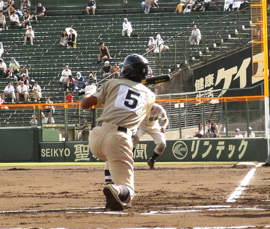 Bunt High schoolbaseball in Japan 2007 Hanshin Koshien Stadium